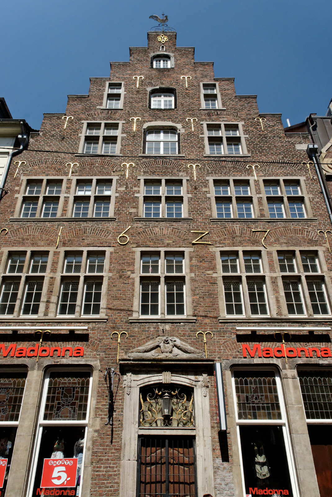 House Zum Kurfürsten, Flinger Straße 36 in Düsseldorf-Altstadt, Germany